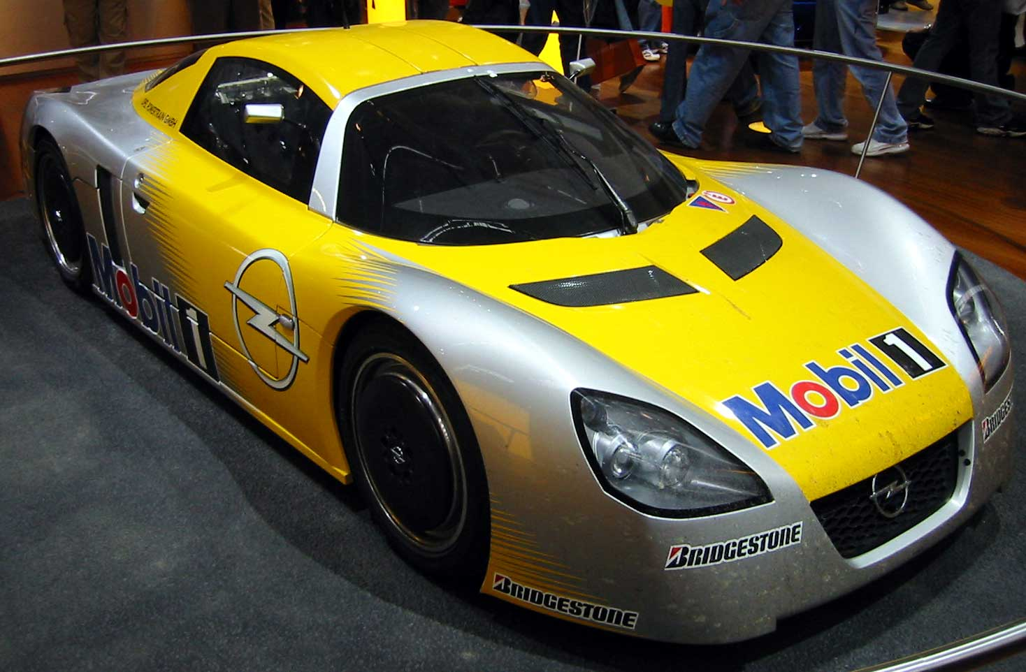 Opel Speedster with economic 1.3l CDTI-Diesel engine